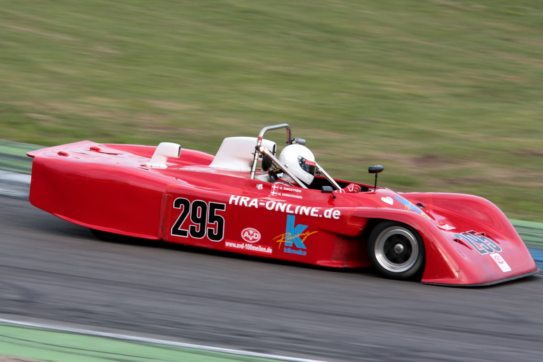 Michael Ringström driving a Swift DB2 at the qualification of Suttgarter Rössle's AvD 100 Meilen race